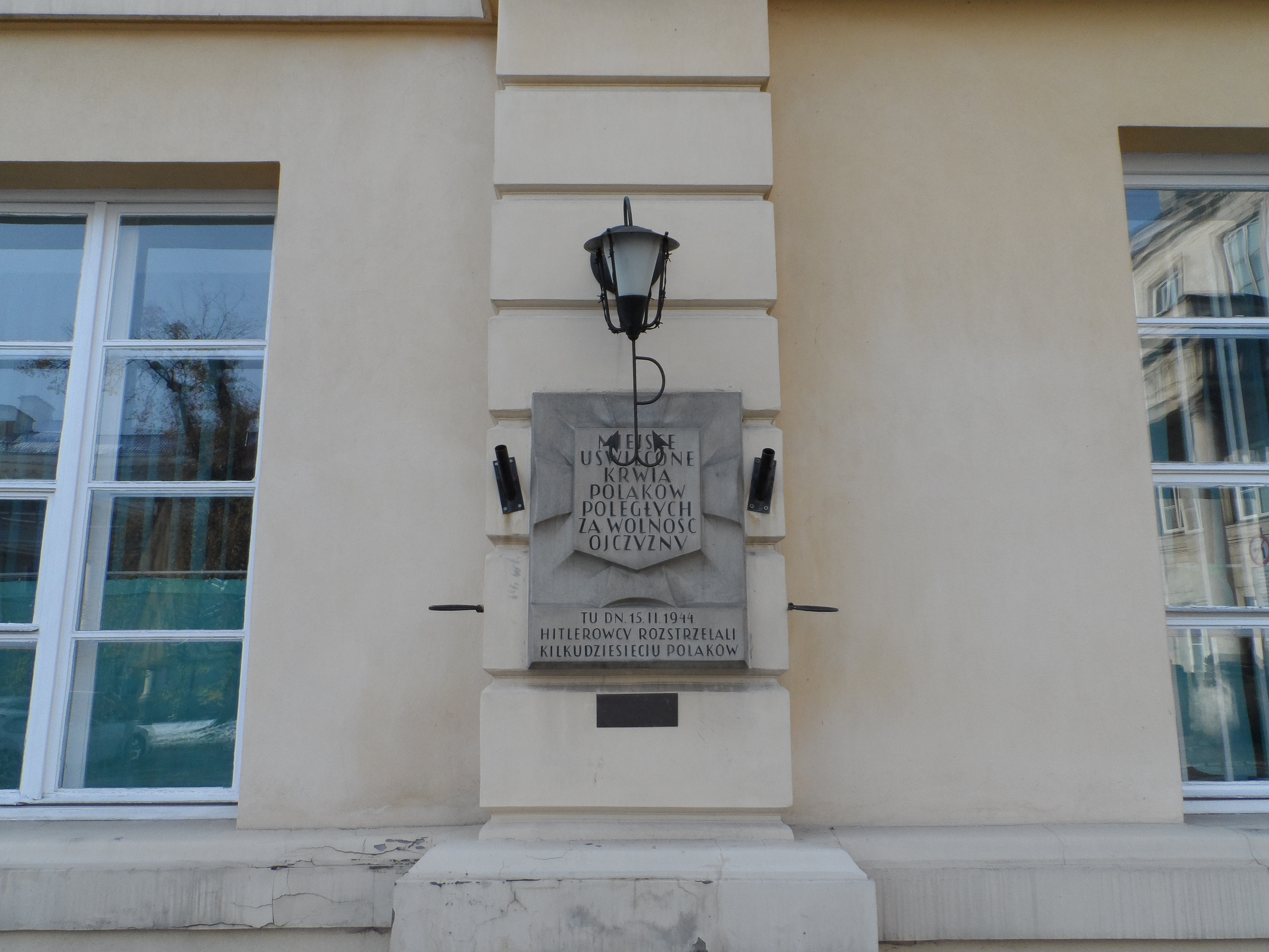 Plaque at 6 Senatorska Street in Warsaw, commemorating a few dozens of Polish hostages murdered in this place by Nazi-Germans in street execution on 15th February 1944. It was the last street execution in occupied Warsaw before Warsaw Uprising begins.